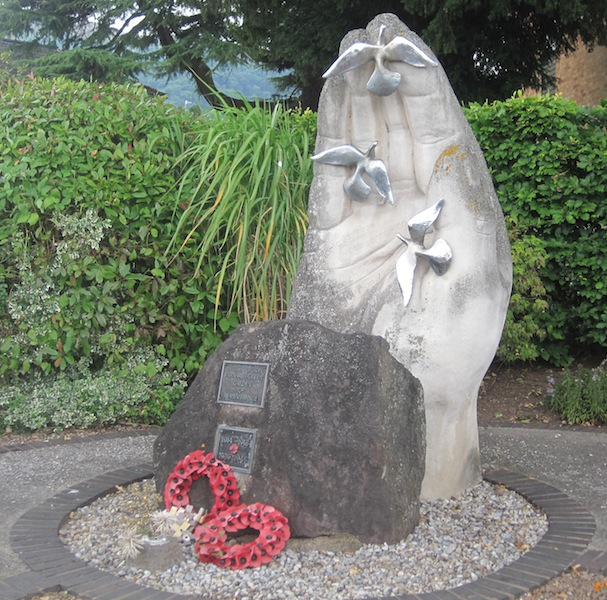 Photograph of a sculpture in Portland stone by artist Rose Garrard